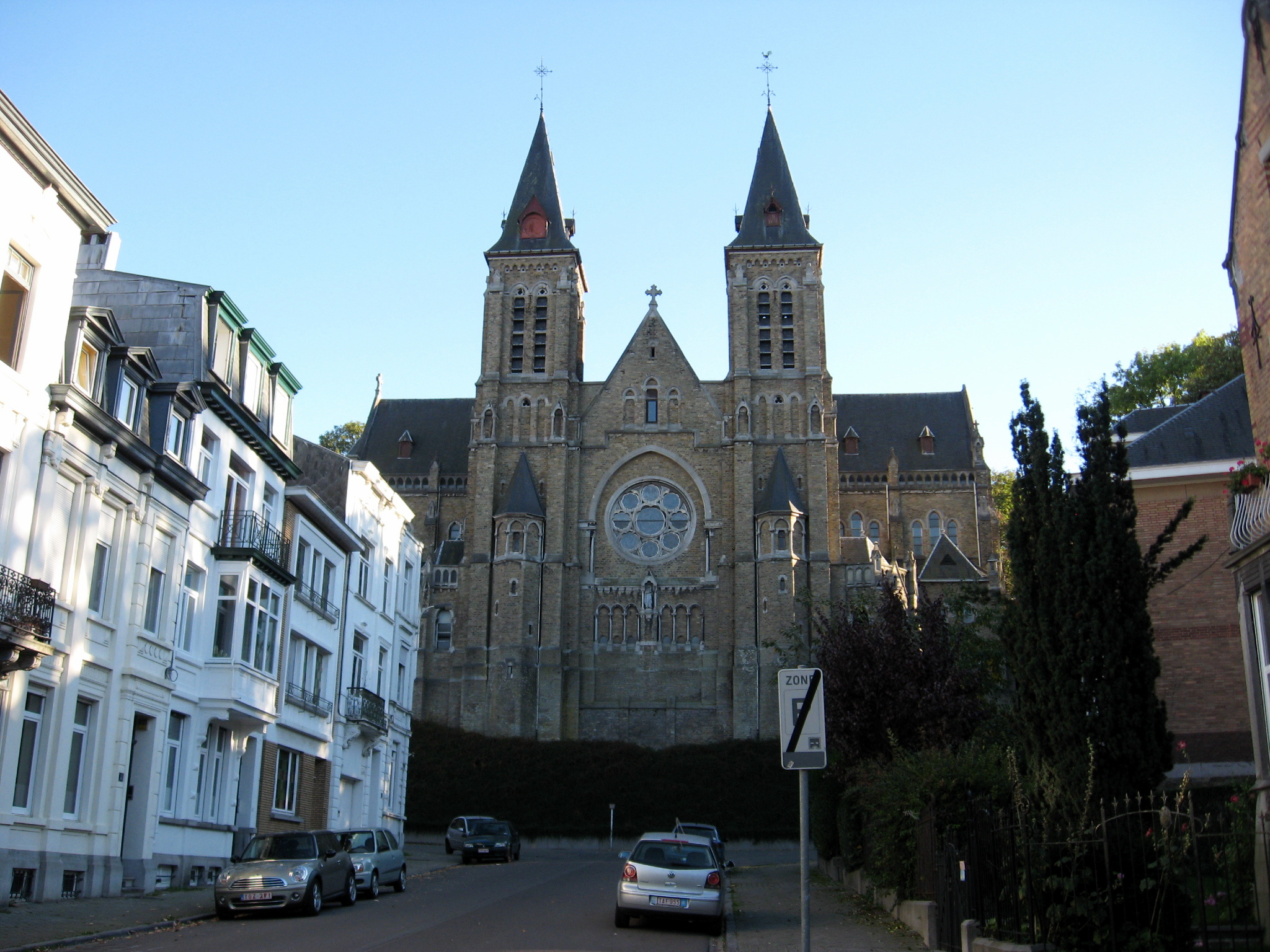 Church of Saint Juliana in Verviers, Liège, Belgium